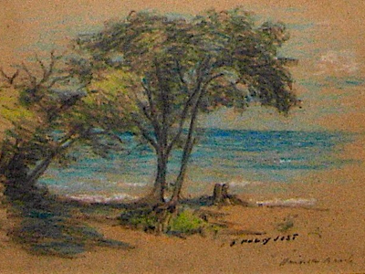 ca. 1910